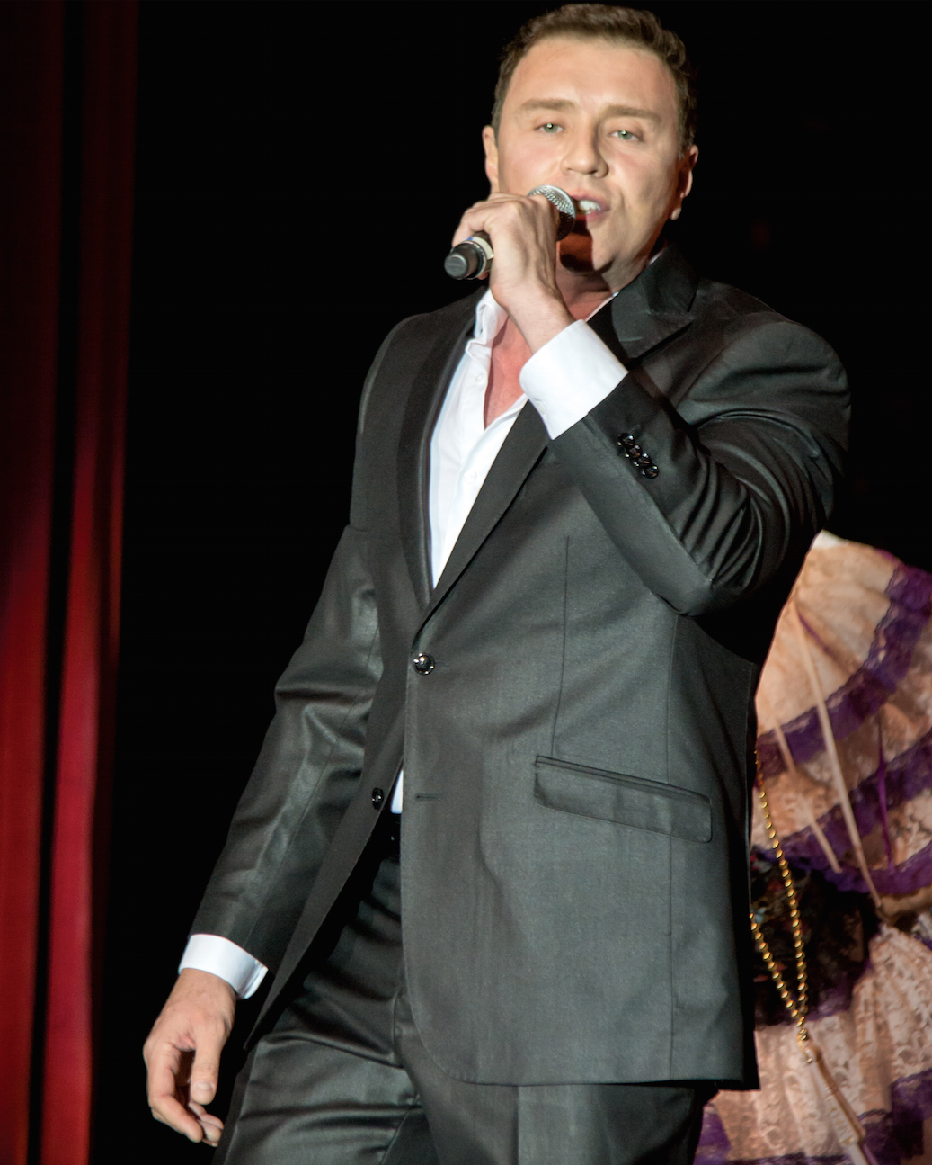 This is a picture of Lorenzo Antonio performing in 2016.